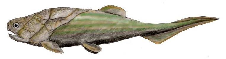 Coccosteus decipiens, a placoderm from the Devonian of Europe and North America, pencil drawing